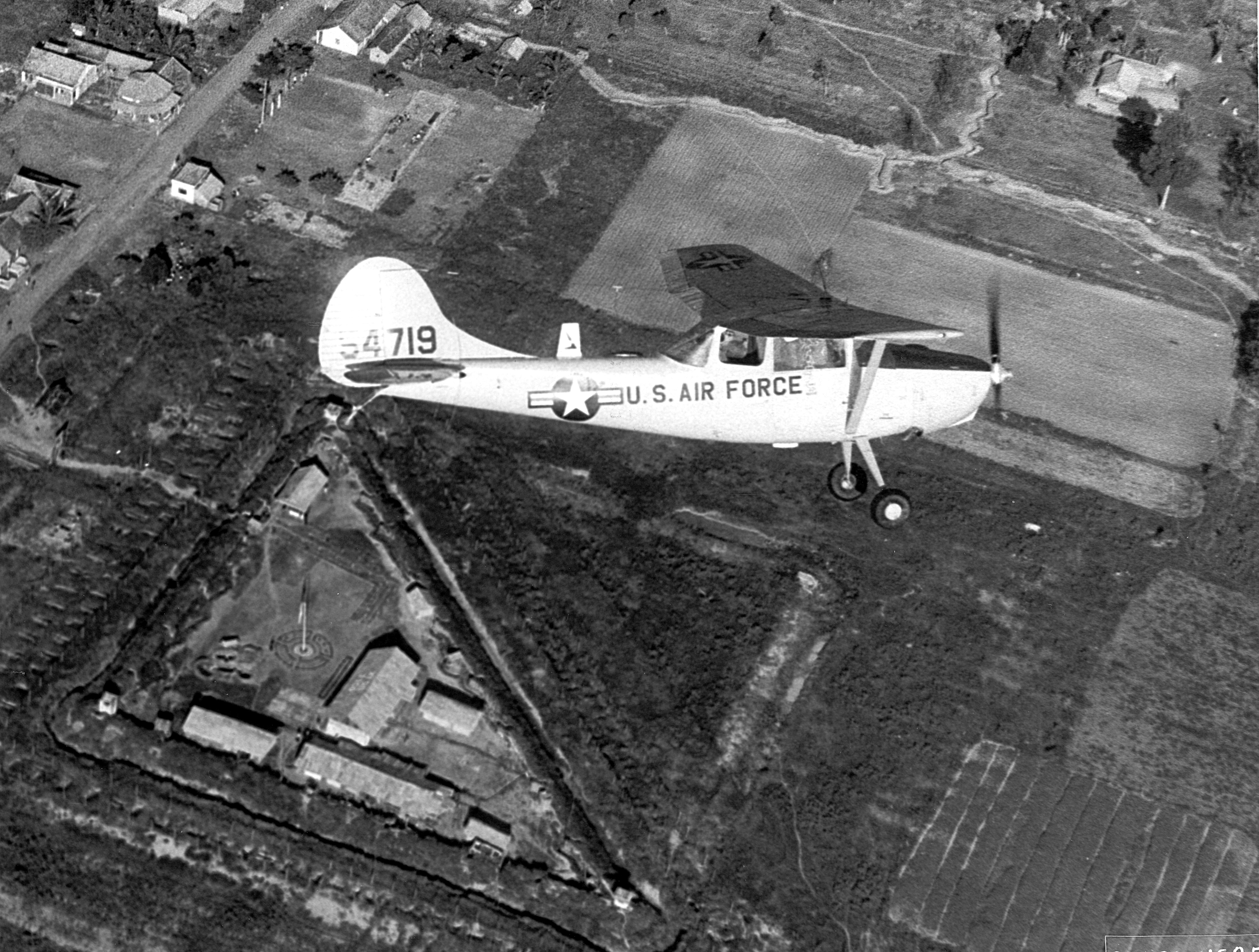 A Forward Air Controller O1-E "Bird Dog" aircraft is shown here in reconnaissance role near a Special Forces Camp in the Republic of Vietnam. USAF Photo